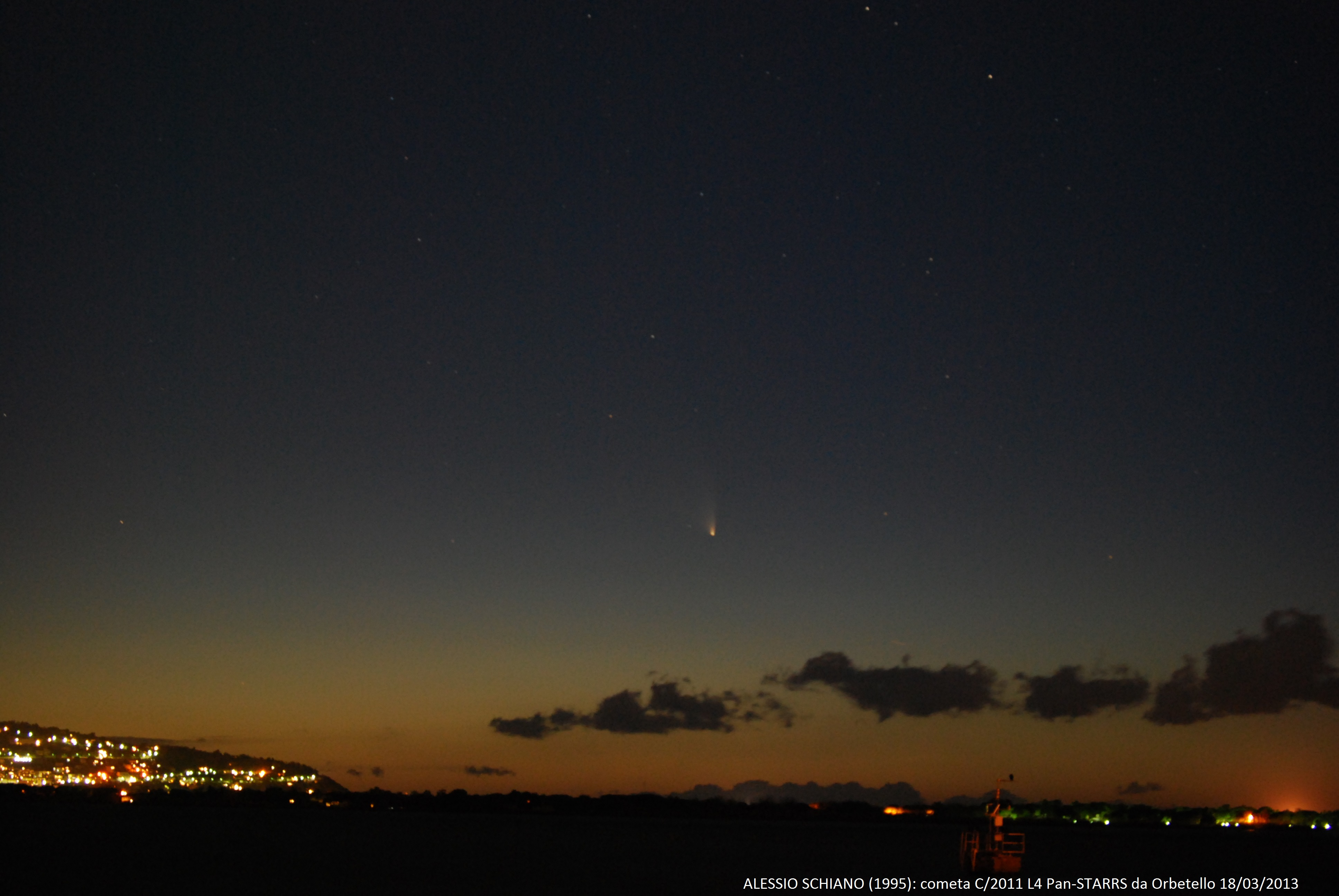 Photo taken by Alessio Schiano March 18, 2013, at Orbetello (Italy)